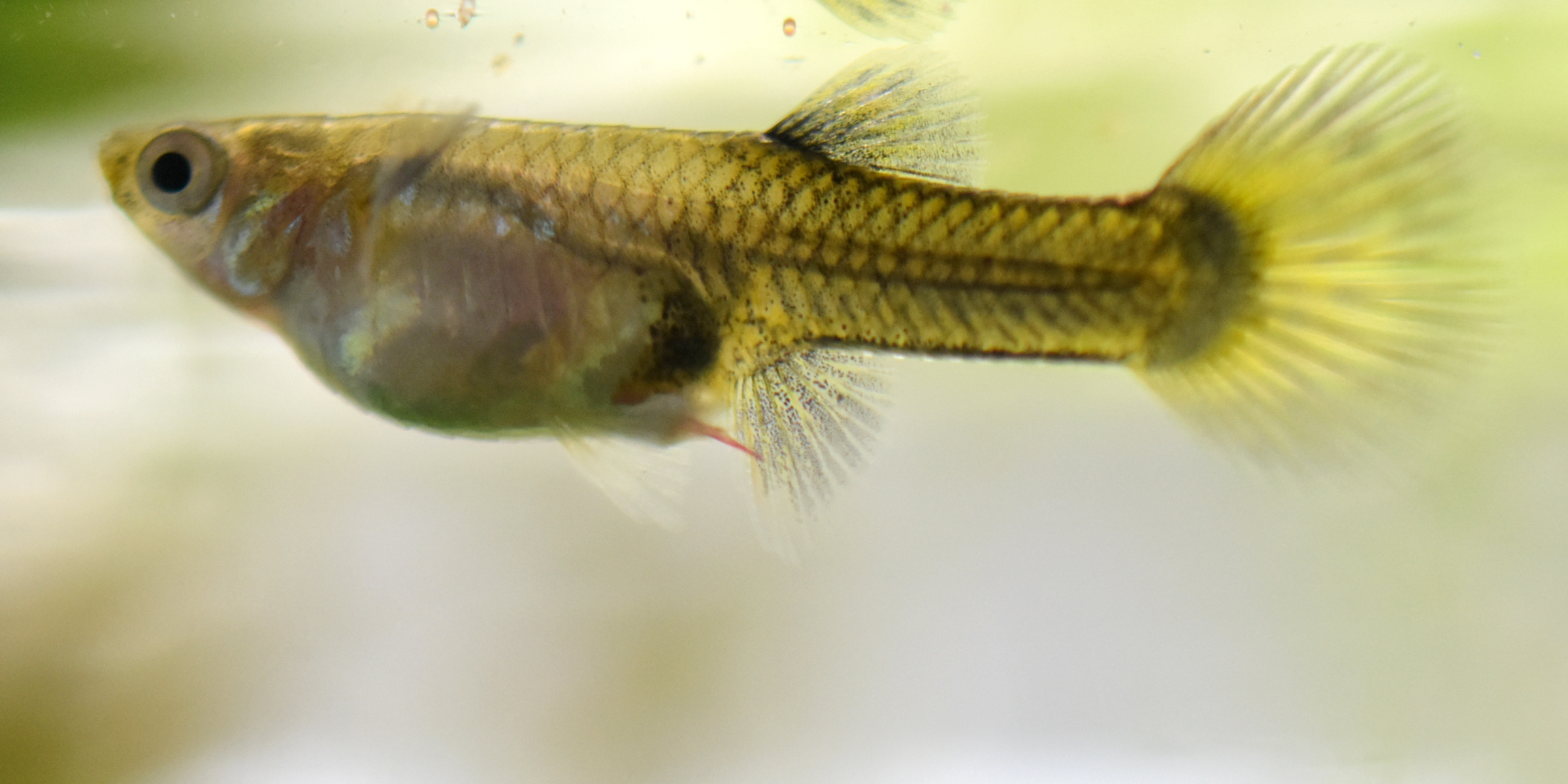 Guppy female, Camallanus cotti